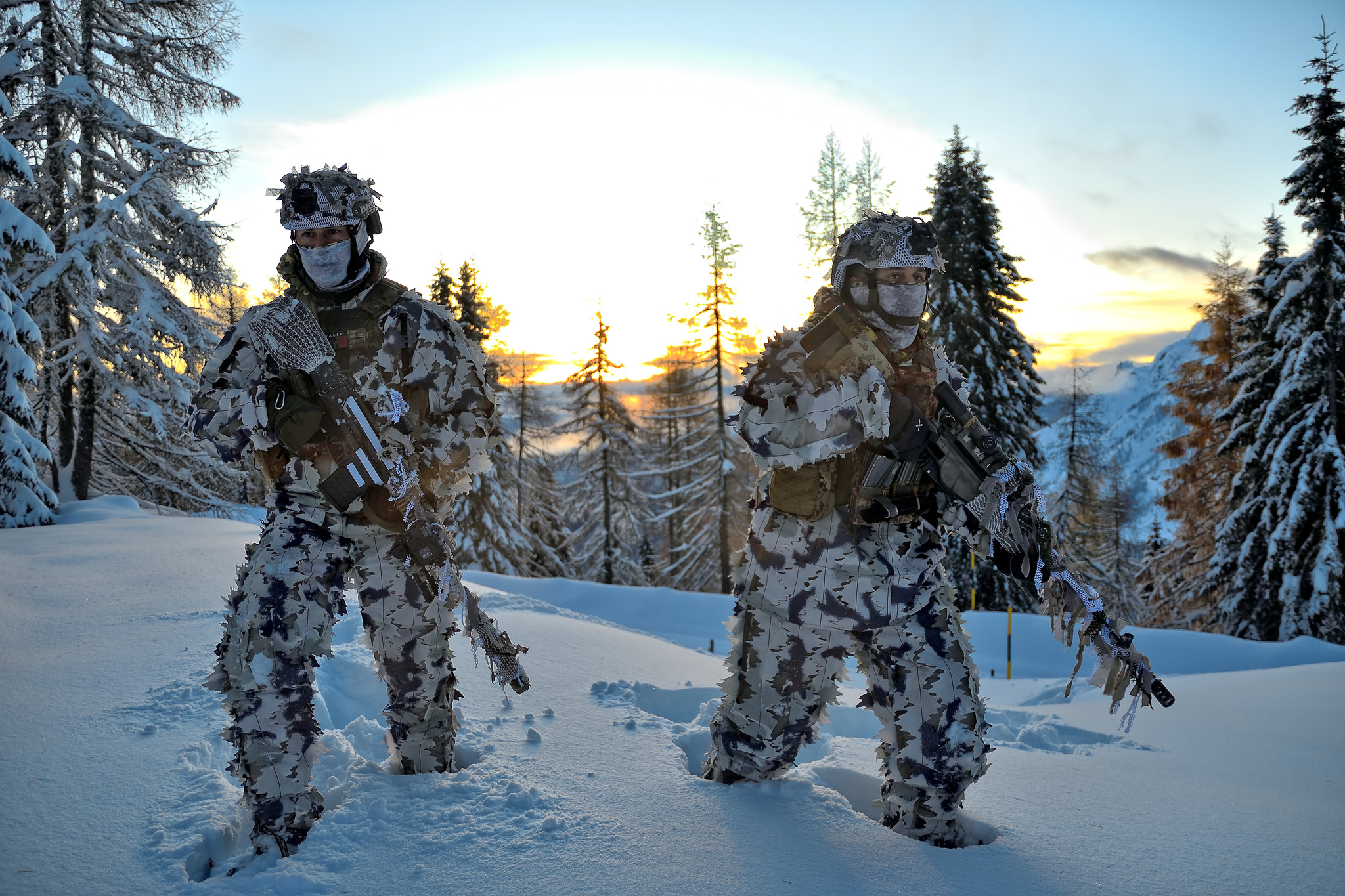 Italian Army 8th Alpini Regiment sniper team in the snow during exercise Abbey Road 2019